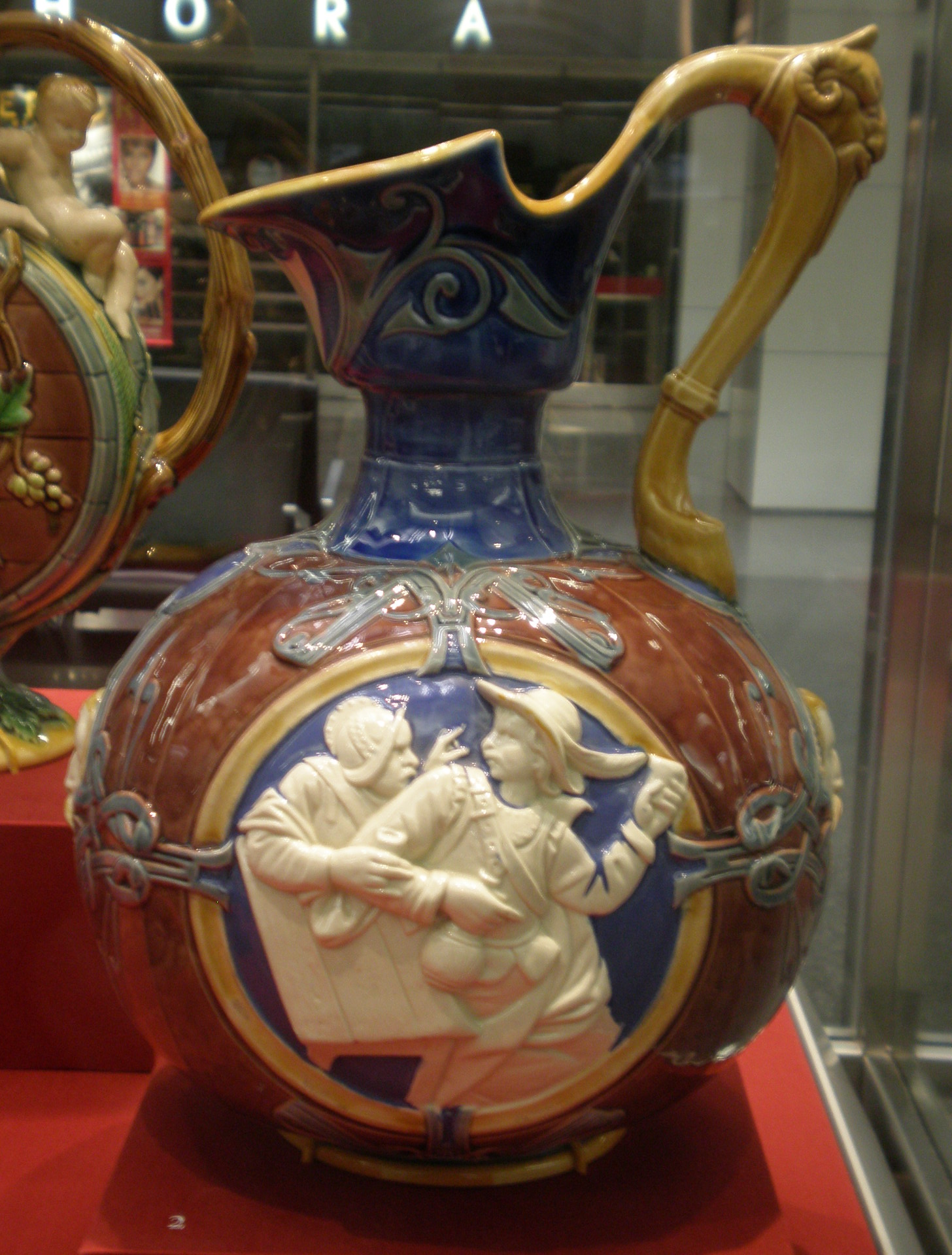 Cavalry flagon, manufactured by Minton & Co., Stoke-on-Trent, England, 1872. Private collection, on display at the time temporarily in the international terminal of San Francisco International Airport (SFO). L2007.3901.017